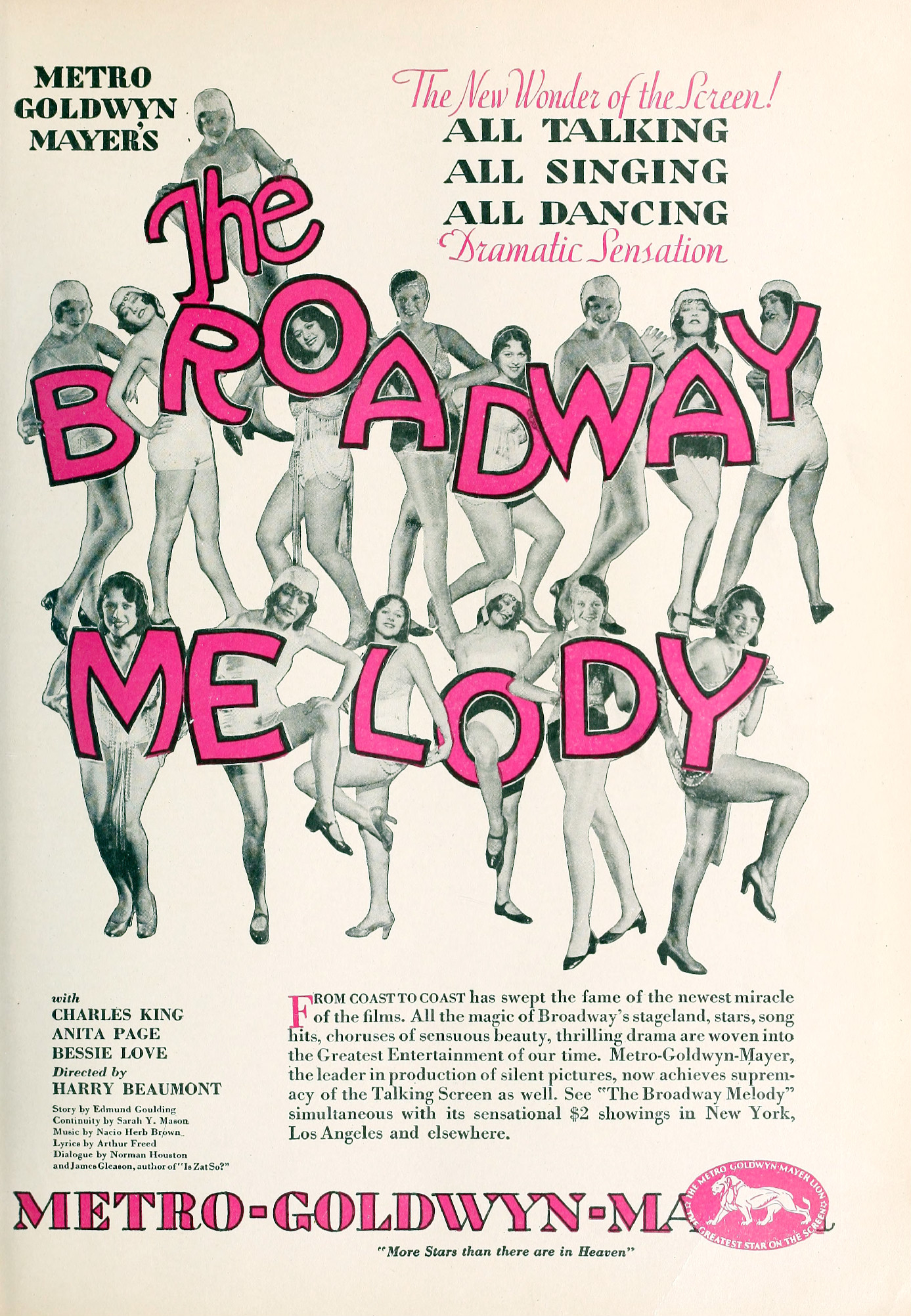 Advertisement for the movie The Broadway Melody (1929)